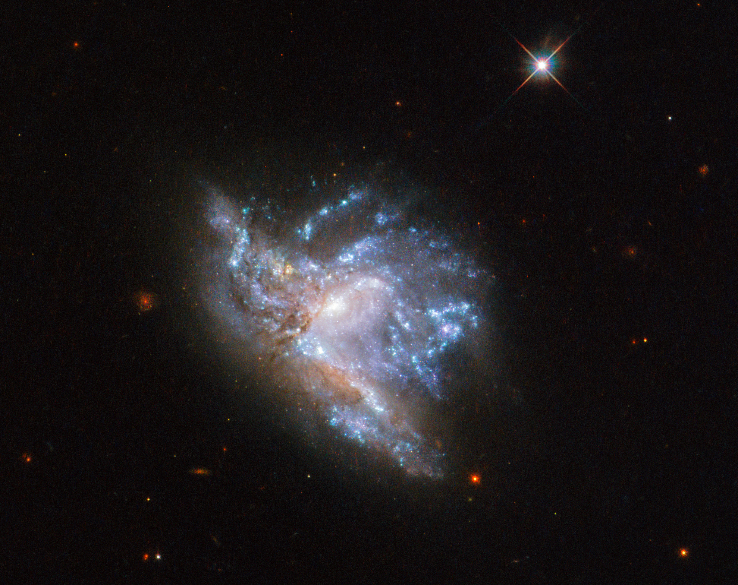 Colliding galaxies Located in the constellation of Hercules, about 230 million light-years away, NGC 6052 is a pair of colliding galaxies. They were first discovered in 1784 by William Herschel and were originally classified as a single irregular galaxy because of their odd shape. However, we now know that NGC 6052 actually consists of two galaxies that are in the process of colliding. This particular image of NGC 6052 was taken using the Wide Field Camera 3 on the NASA/ESA Hubble Space Telescope. A long time ago gravity drew the two galaxies together into the chaotic state we now observe. Stars from within both of the original galaxies now follow new trajectories caused by the new gravitational effects. However, actual collisions between stars themselves are very rare as stars are very small relative to the distances between them (most of a galaxy is empty space). Eventually things will settle down and one day the two galaxies will have fully merged to form a single, stable galaxy. Our own galaxy, the Milky Way, will undergo a similar collision in the future with our nearest galactic neighbour, the Andromeda Galaxy. Although this is not expected to happen for around 4 billion years so there is nothing to worry about just yet. This object was previously observed by Hubble with its old WFPC2 camera. That image was released in 2015. Credit: ESA/Hubble & NASA, A. Adamo et al. Coordinates Position (RA): 16 5 12.53 Position (Dec): 20° 32' 30.43" Field of view: 1.62 x 1.28 arcminutes Orientation: North is 45.0° left of vertical Colours & filters Band Wavelength Telescope Optical U 336 nm Hubble Space Telescope WFC3 Optical B 438 nm Hubble Space Telescope WFC3 Optical V 555 nm Hubble Space Telescope WFC3 Optical H-alpha 665 nm Hubble Space Telescope WFC3 Optical I 814 nm Hubble Space Telescope WFC3 .